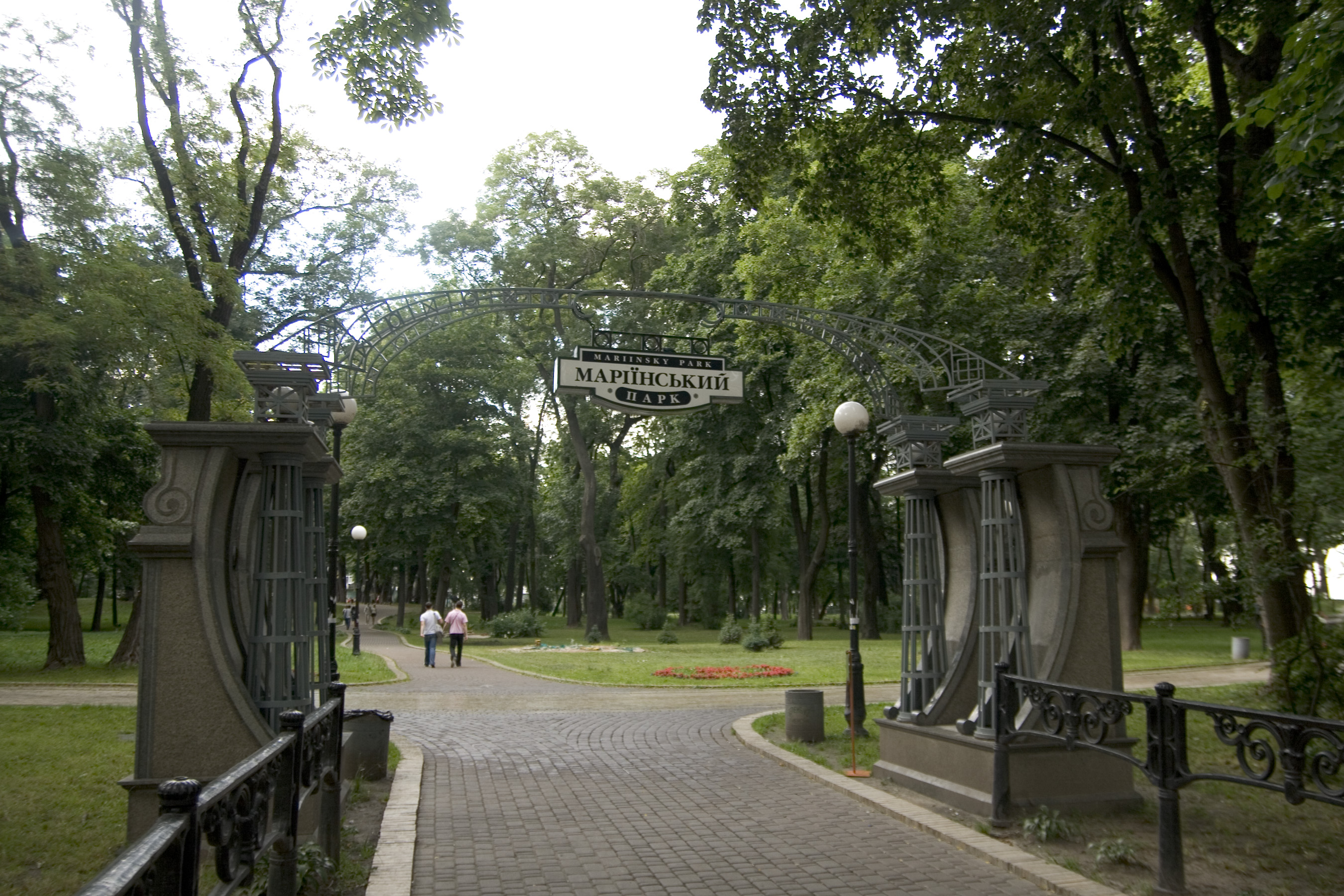 Mariinsky park in Kiev